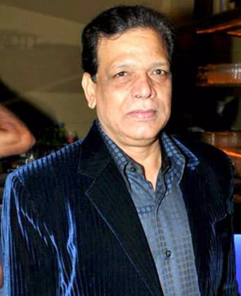 Govind Namdeo at Audio release of Mittal V/S Mittal